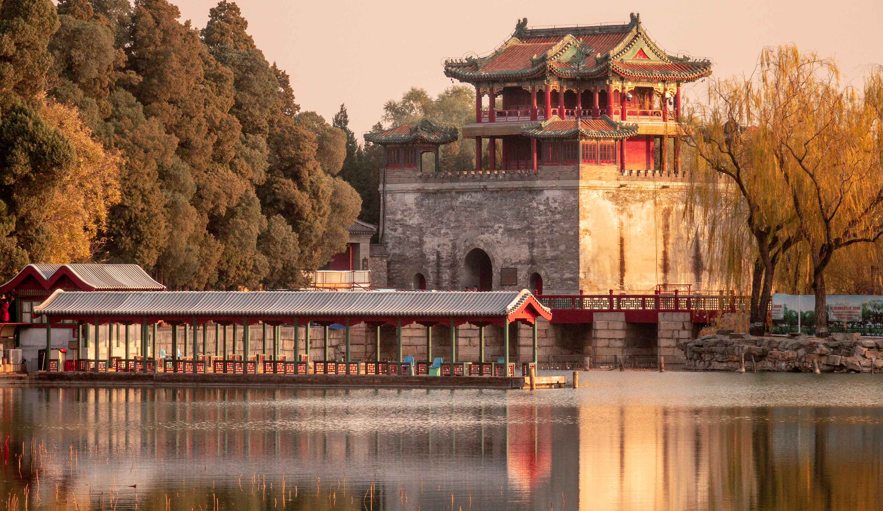 The Wenchang Tower or Pavillion and a boat dock